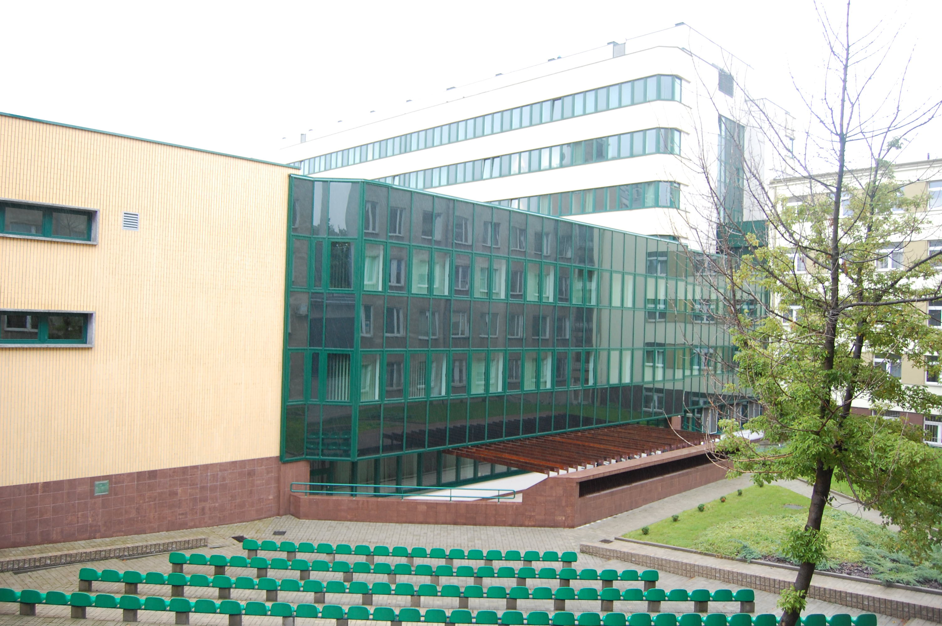 UMCS